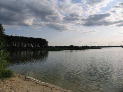 River in Ukraine